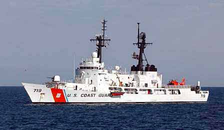 US Coast Guard High Endurance Cutter Boutwell cruises on station in the Arabian Sea. Boutwell is currently forward deployed, conducting Maritime Interdiction Operations in the Persian Gulf in support of U.N. sanctions on Iraq. U.S. Navy photo by Photographer's Mate 2nd Class, Richard Moore.